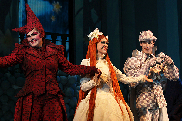 Original cast of "All about Cinderella"